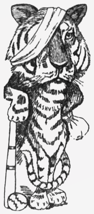 An illustration from the May 30, 1893, edition of the Nashville Banner bemoaning the team's last-place status